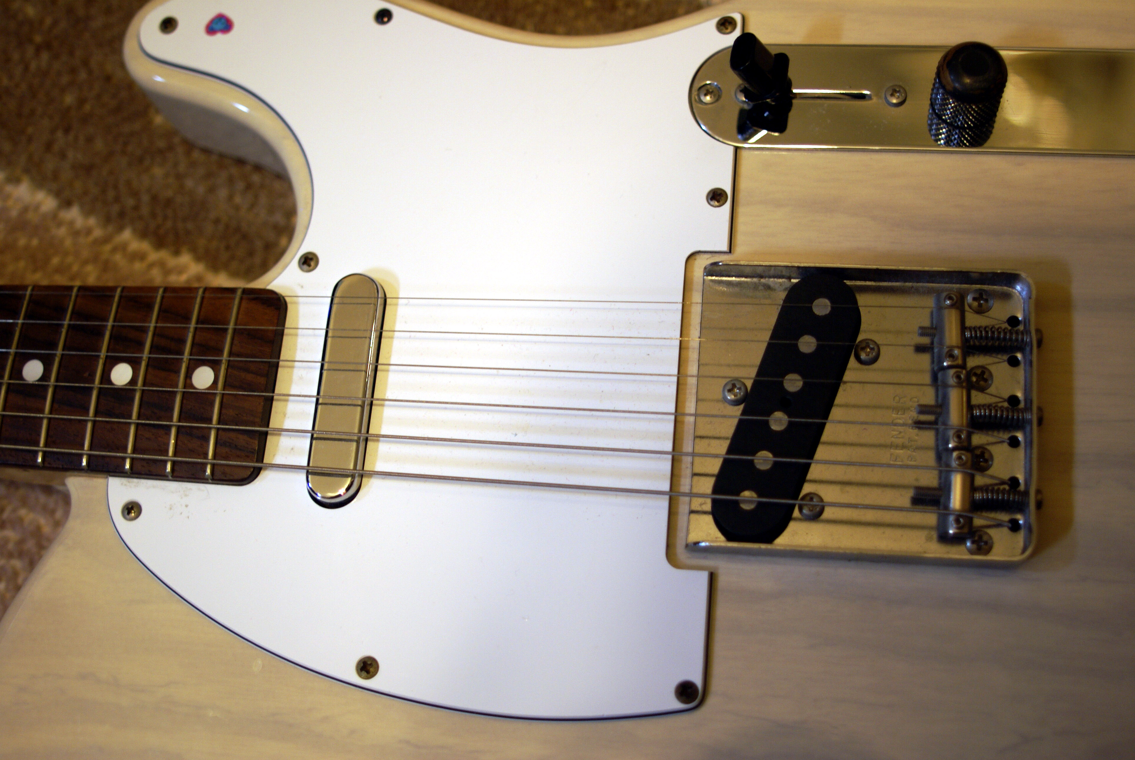 Telecaster Pickups